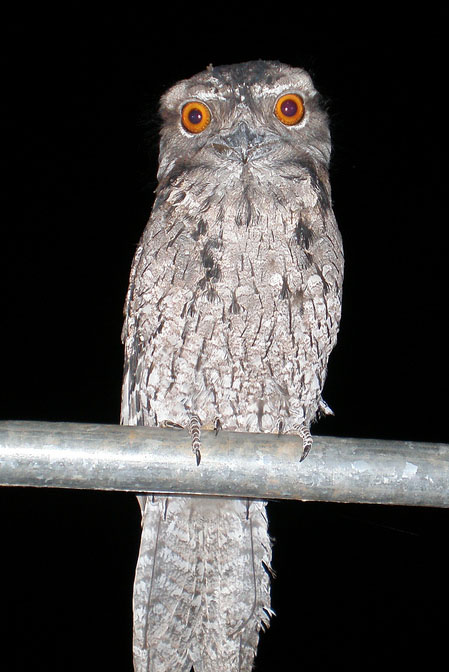 Marbled Frogmouth in Redwood, Queensland, Australia.